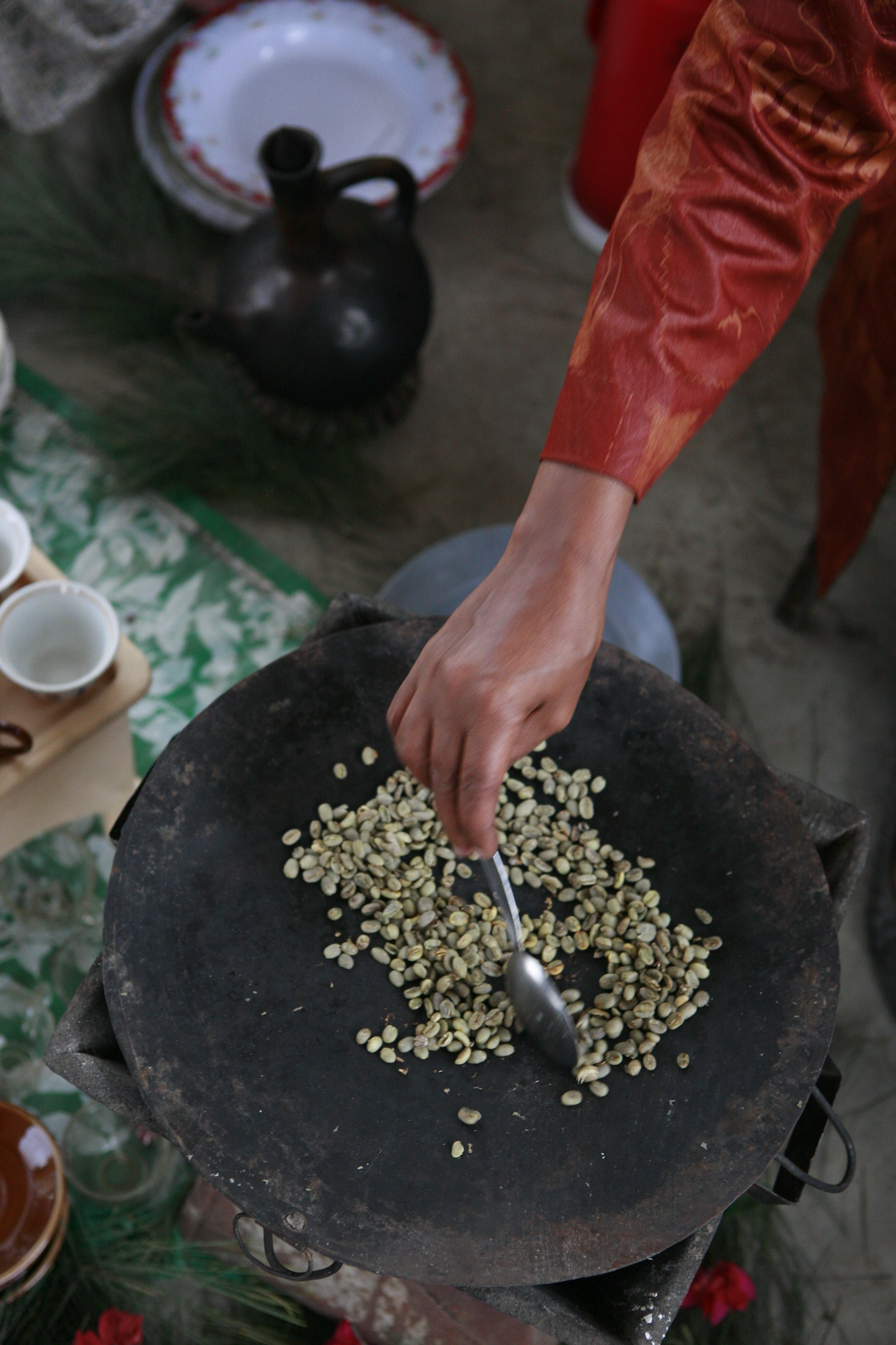 Roasting green/raw coffee beans ...